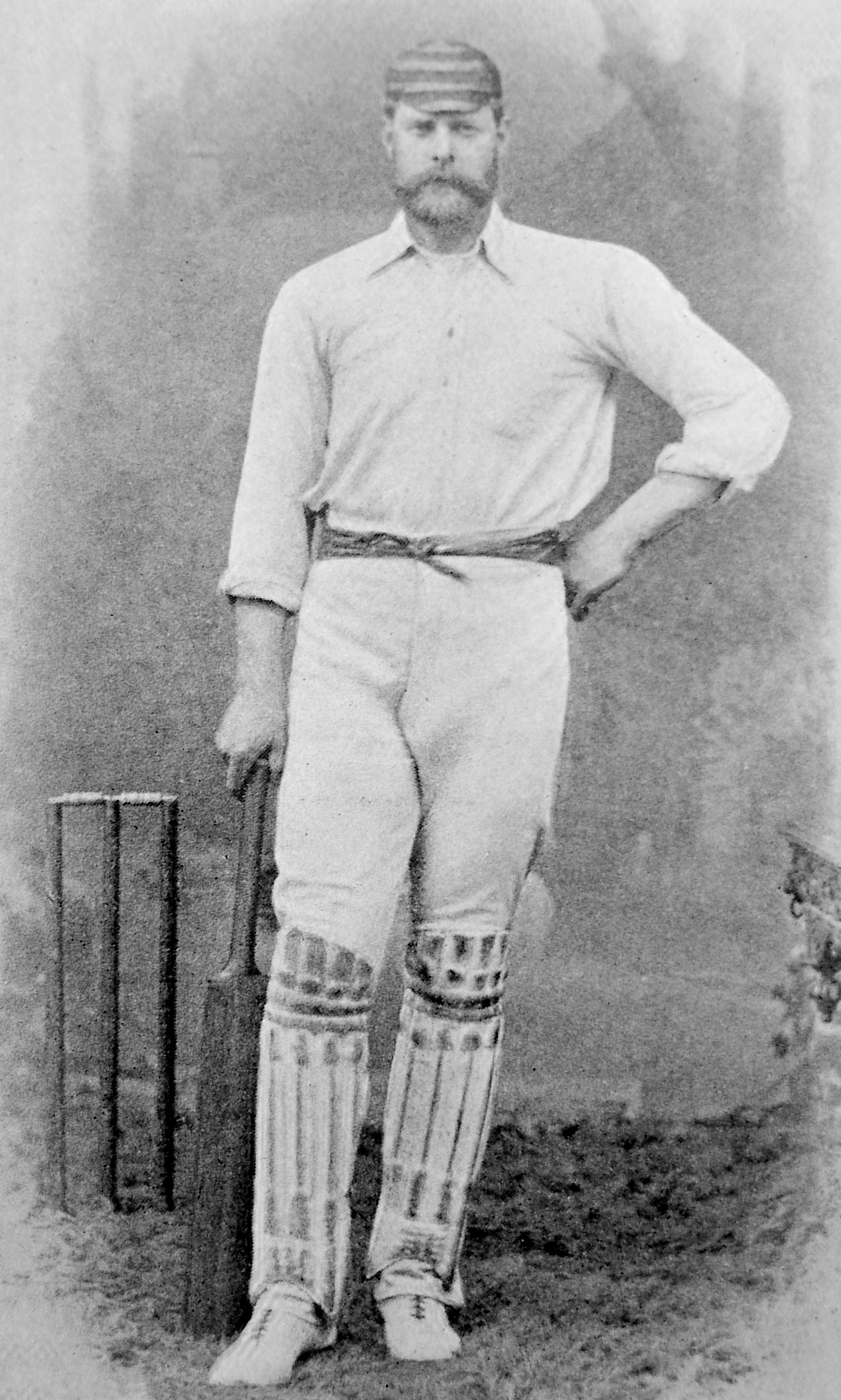 Photo of G J Bonnor